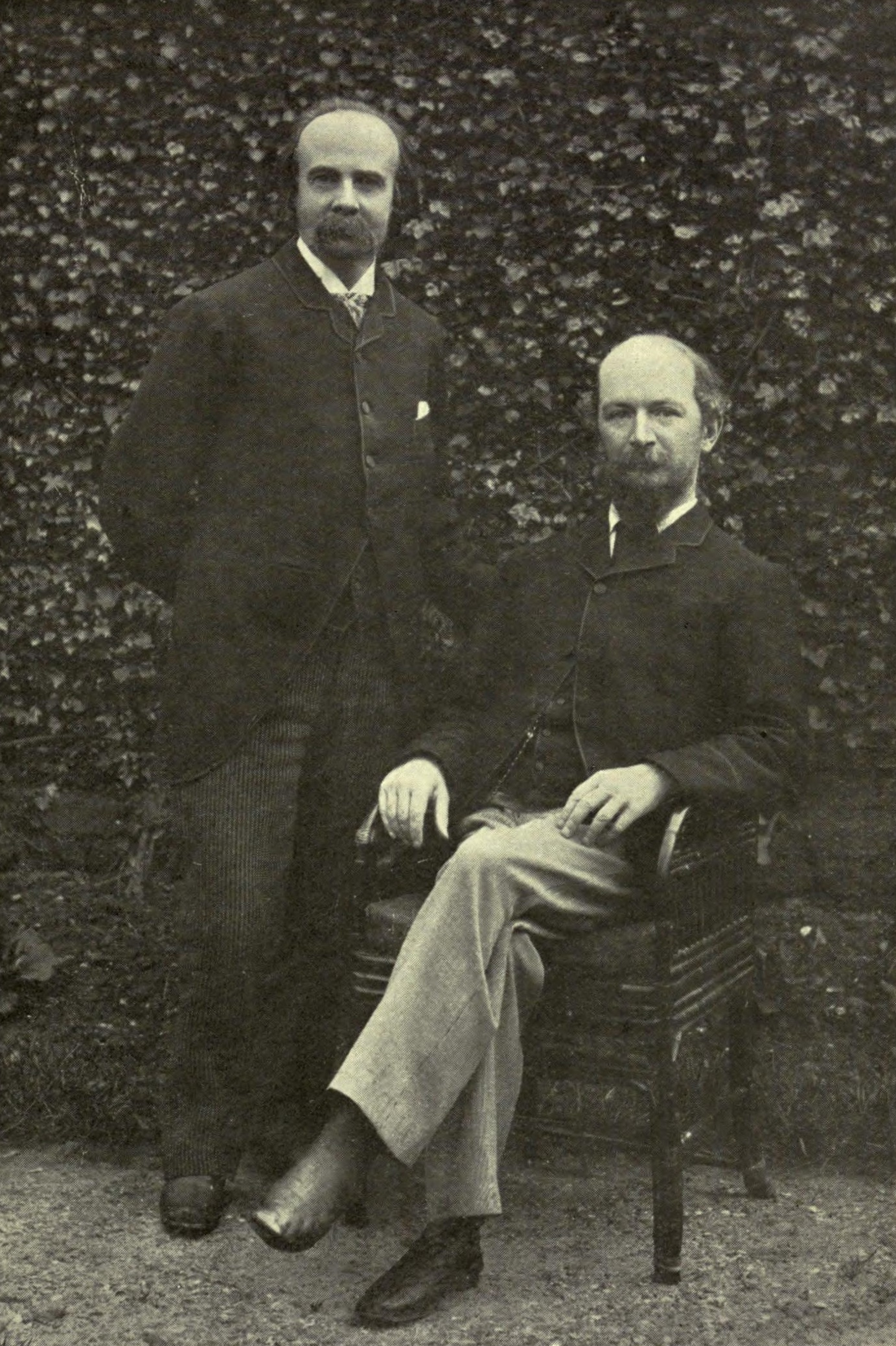 Algernon Charles Swinburne and Theodore Watts-Dunton.